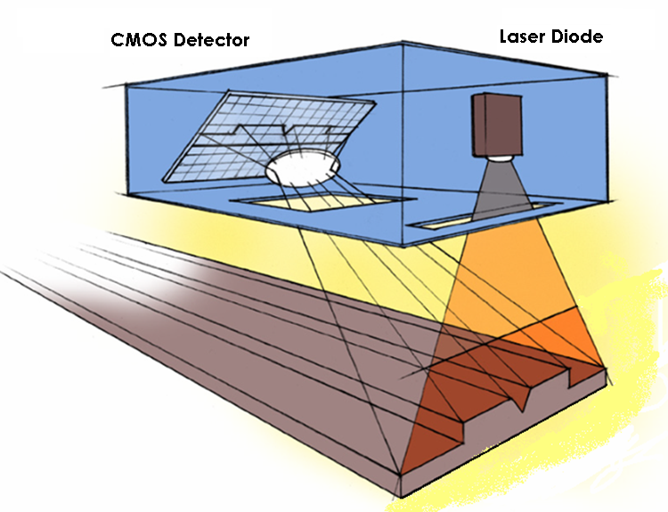 Dennis Reynolds